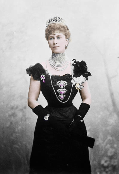 Queen Mary when Princess of Wales, dressed in mourning clothes for Queen Victoria